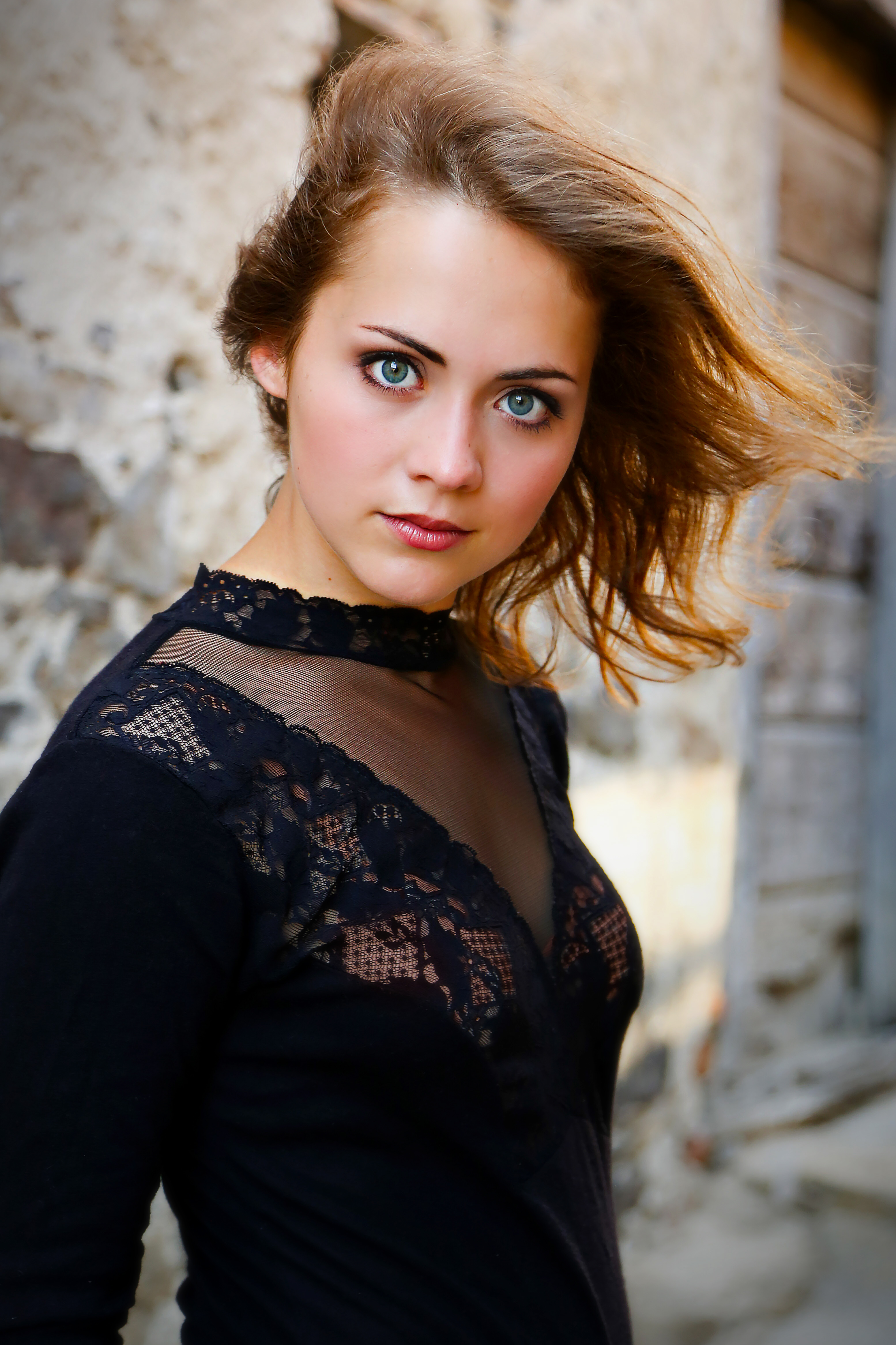 Portrait of actress/singer Glenna Weber, photographed by Sam Madwar.